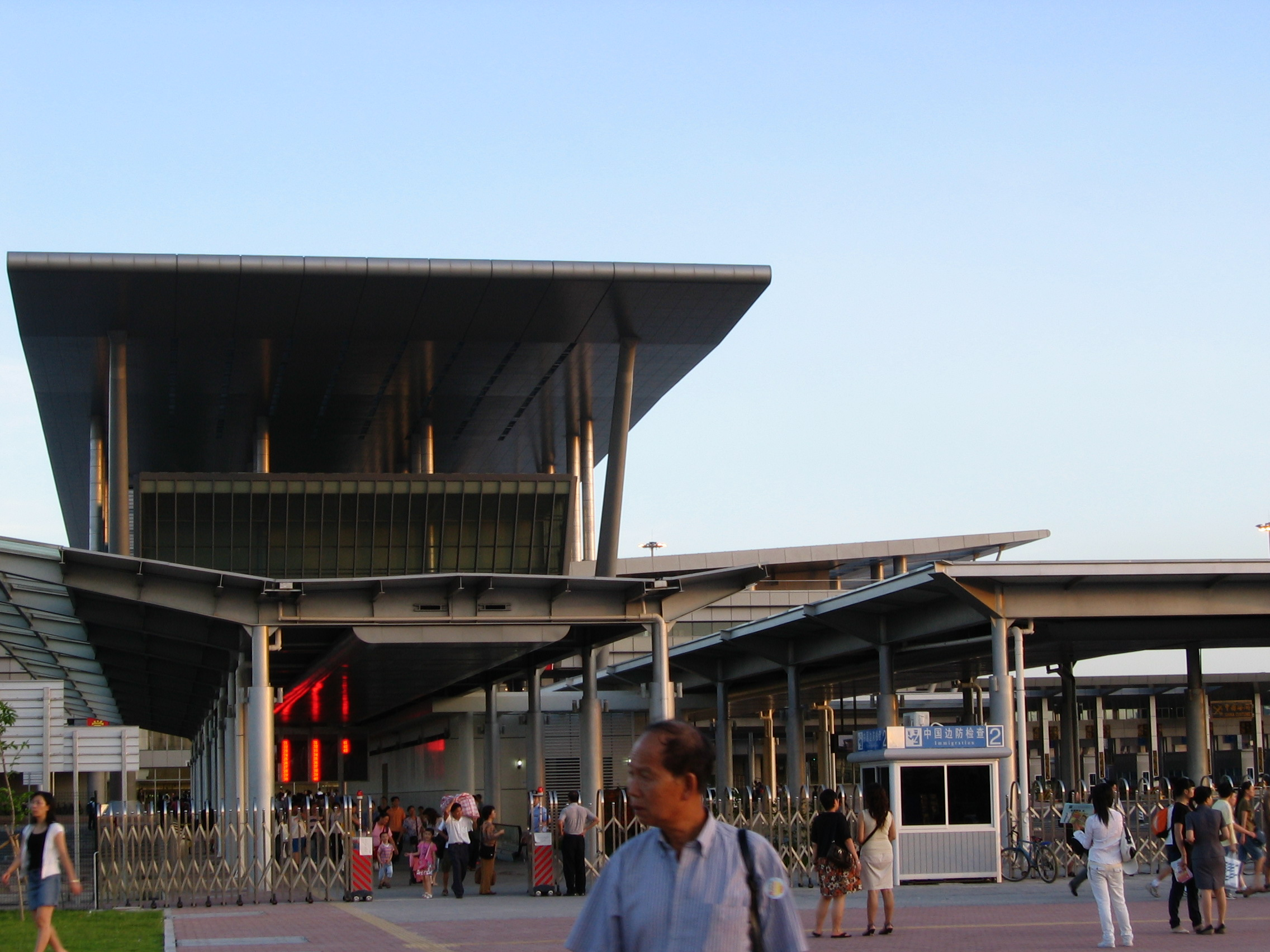 Appearance of Shenzhen Bay Port Passenger Terminal